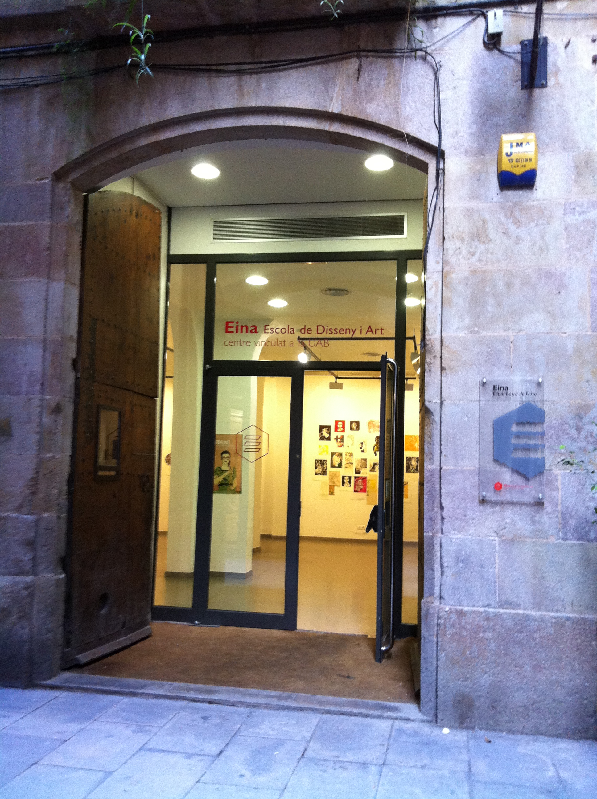 Eina Art School in Barcelona